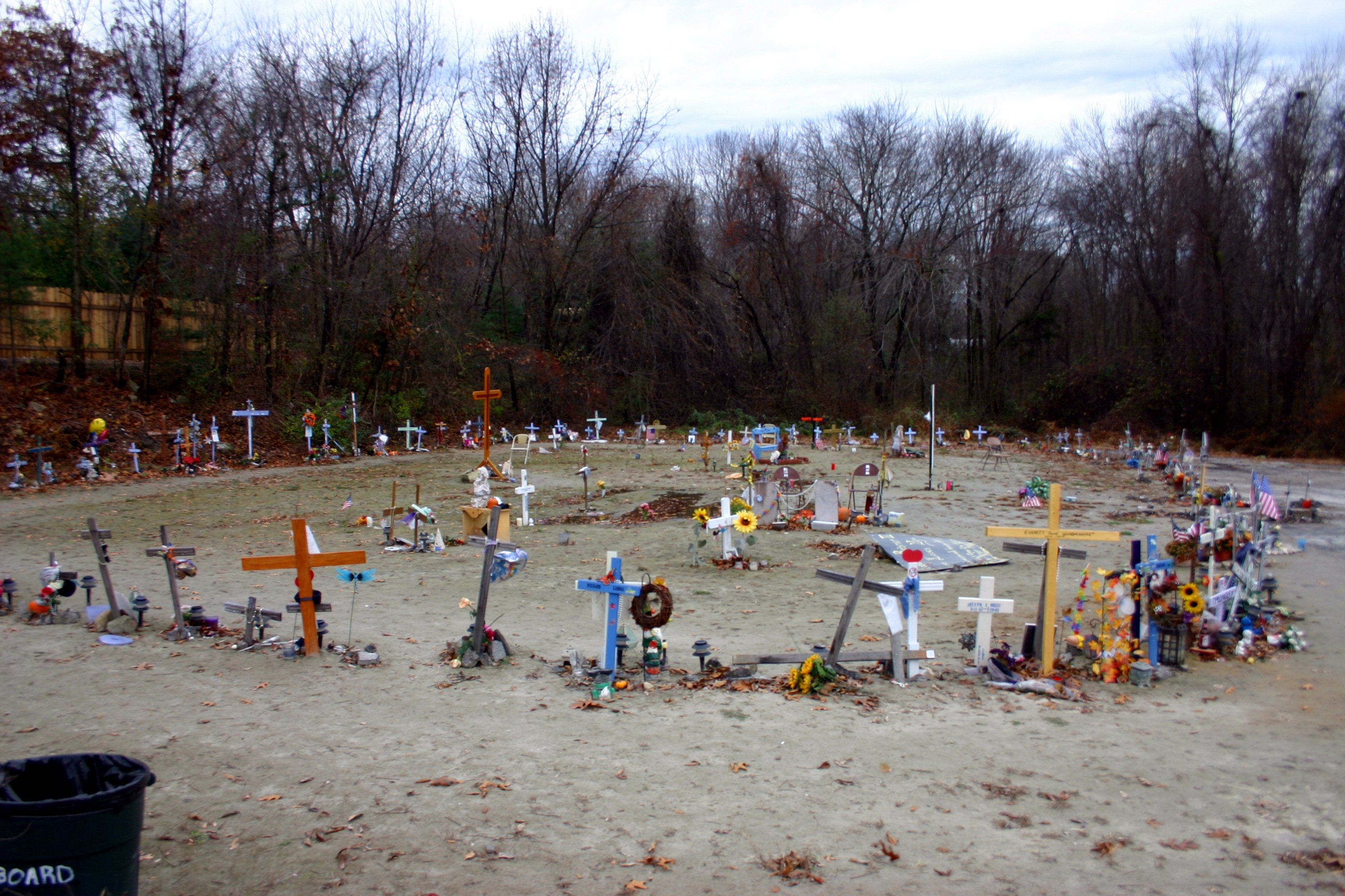 Station Night Club Memorial (former location of the Station Night Club))